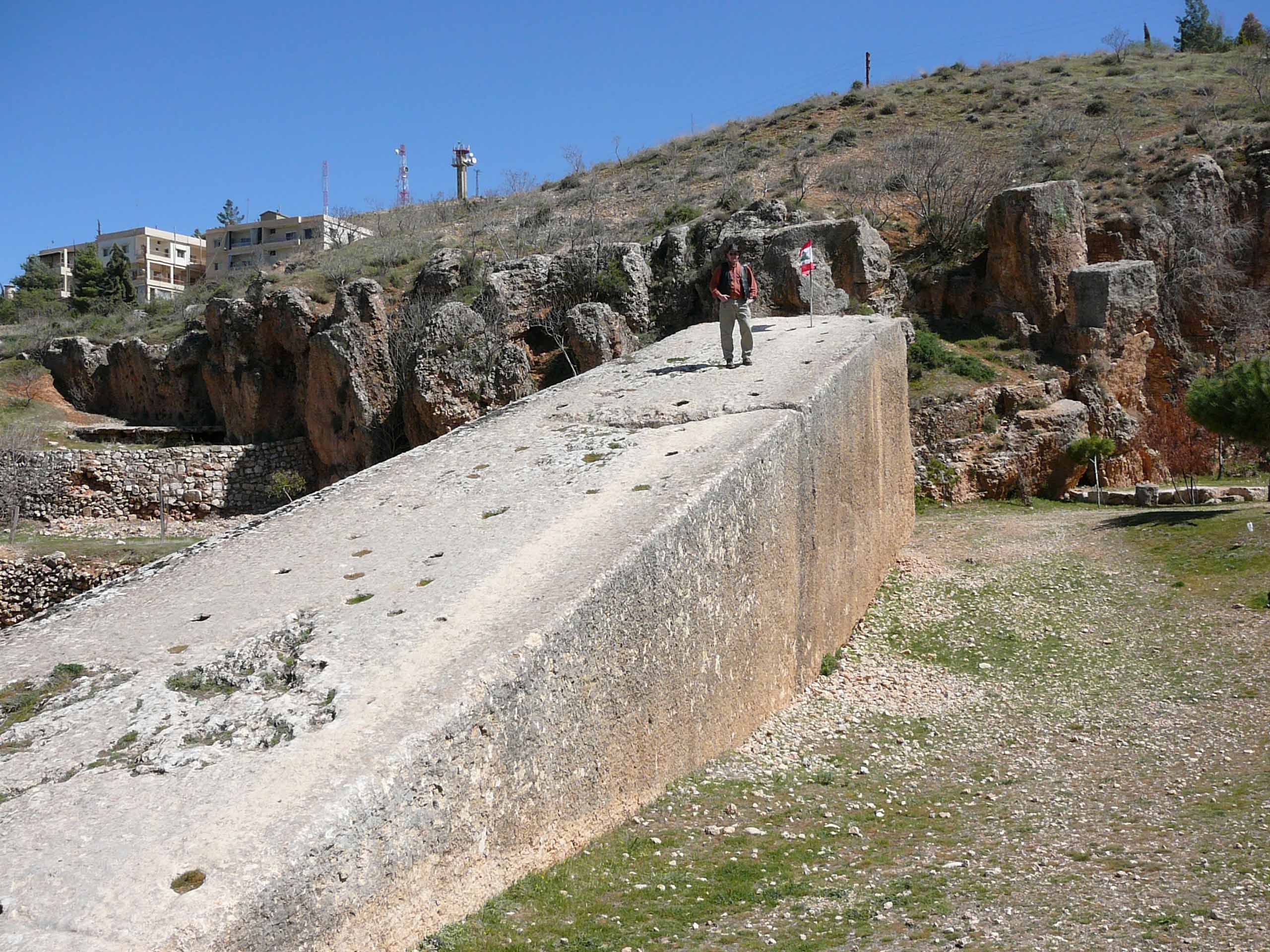 Ralph Ellis on the large stone at Baalbek, known as the Stone of the Pregnant Woman